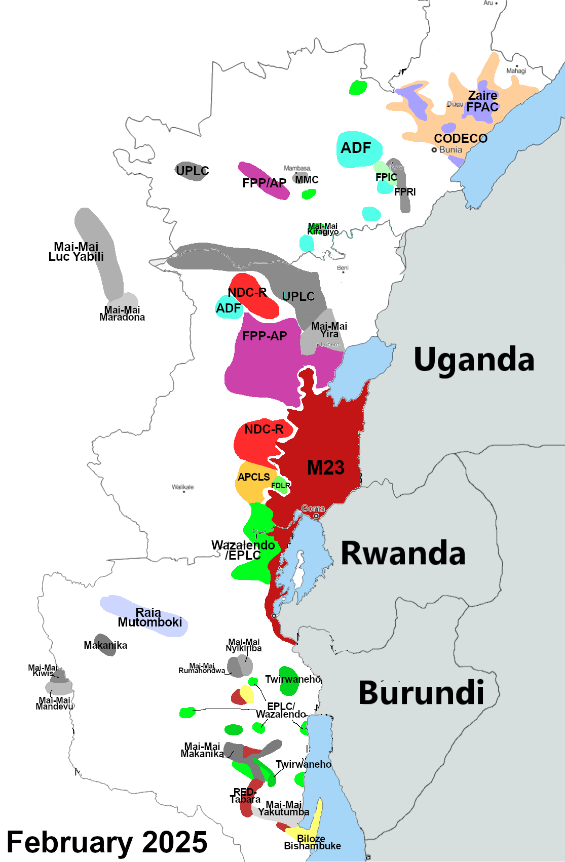 Map of Kivu conflict. Based on [1], Map 6, page 45